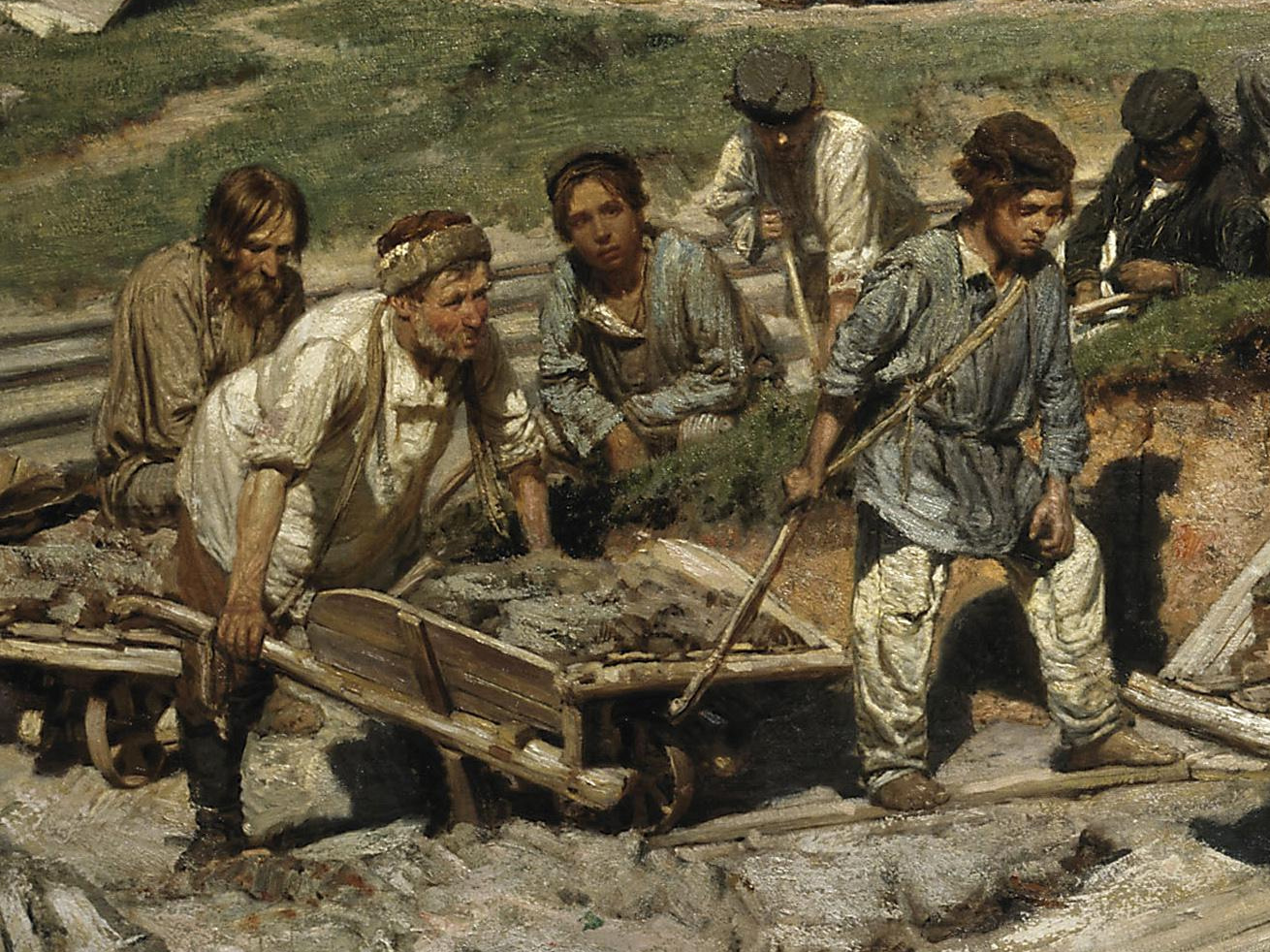 Repair work on the railway (painting by Konstantin Savitsky)